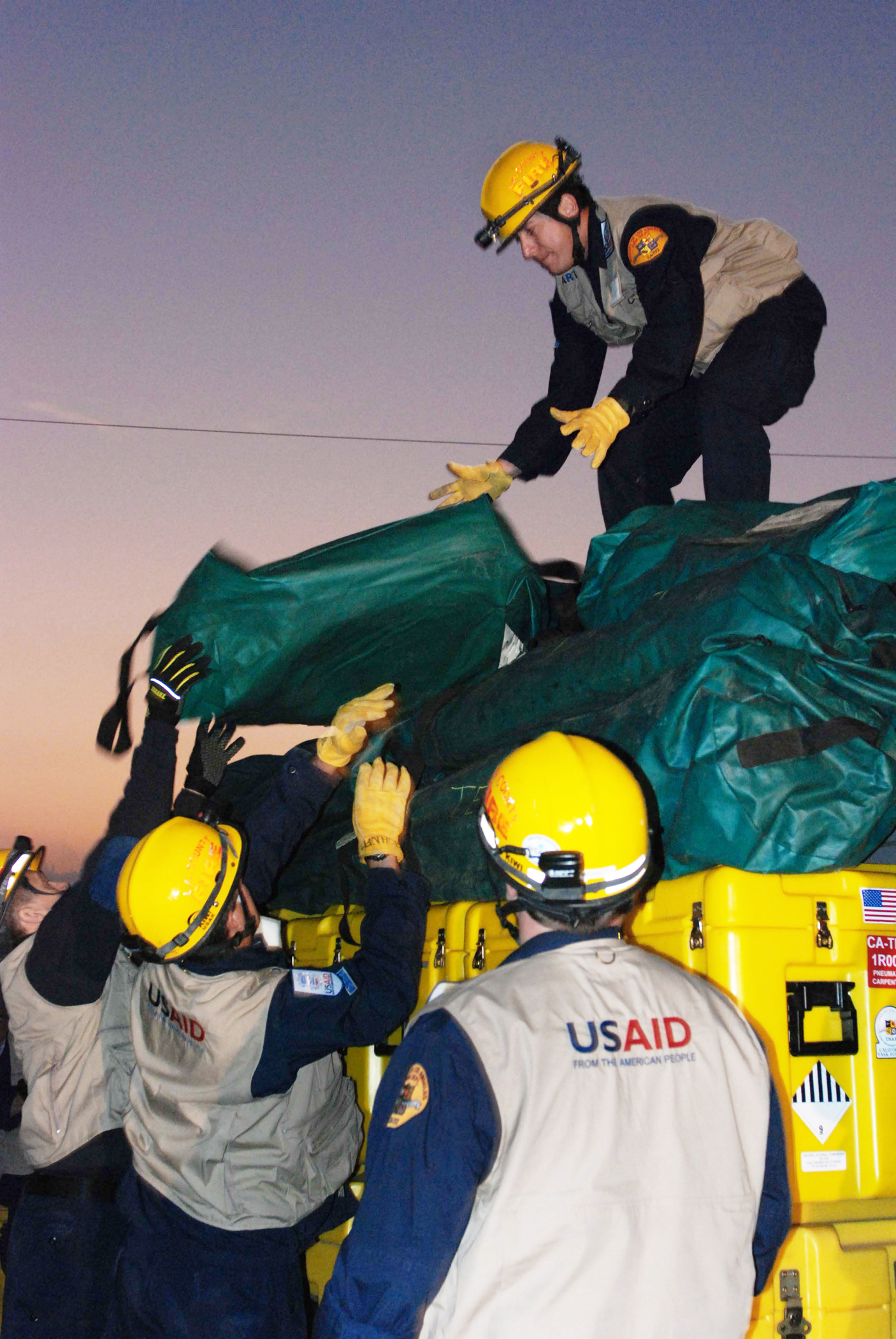 Members of a U.S. Agency for International Development search and rescue team build a pallett for transport on a C-17 Globemaster III, Jan. 13, 2010 at March Air Reserve Base, Calif. The USAID personnel are members of the Los Angeles County Fire Department. The C-17 Globemaster III that transported the 72-person team and rescue equipment was from Travis Air Force Base, Calif. VIRIN: 100113-F-9730W-216